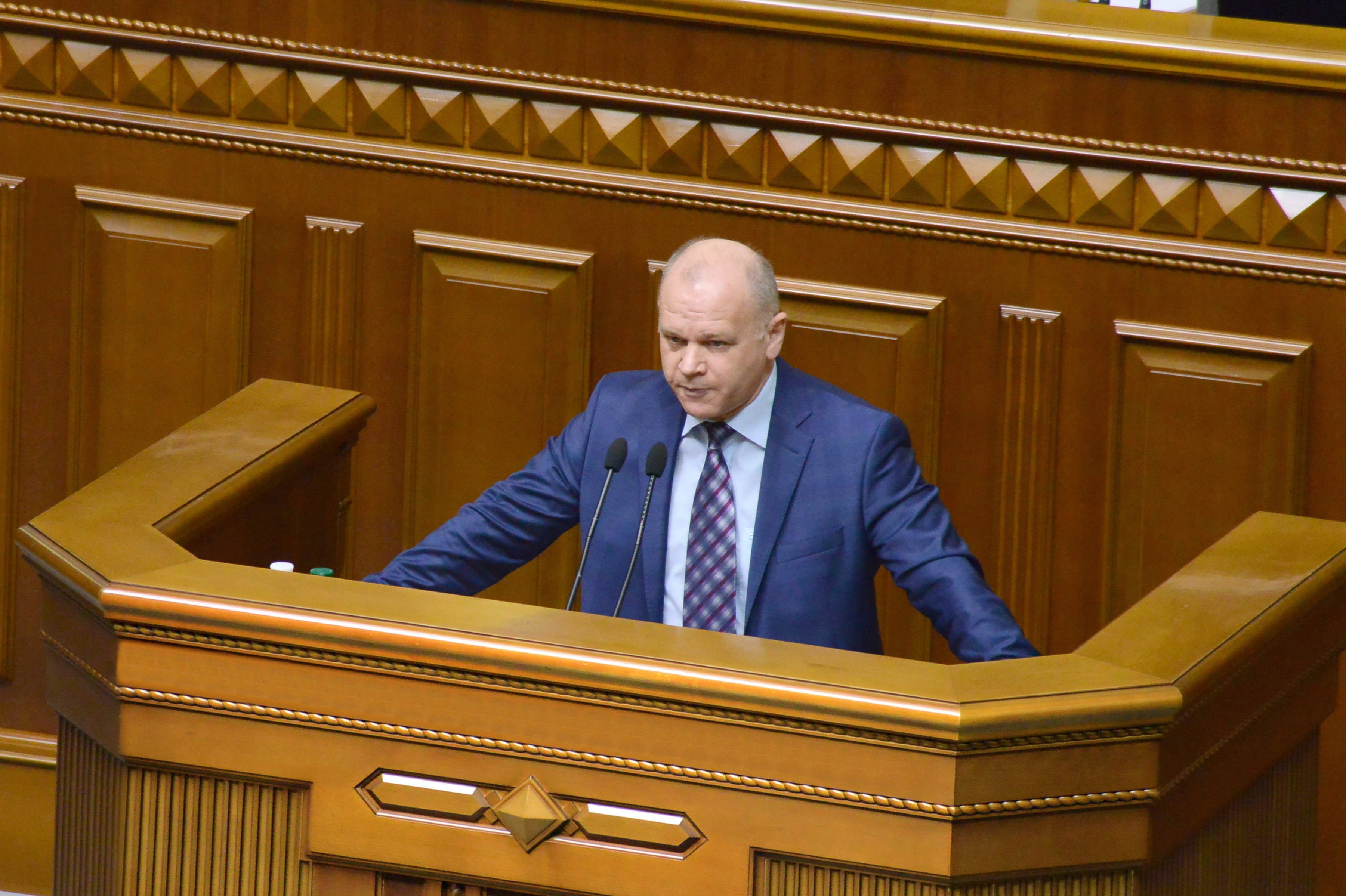 PARLIAMENT OF UKRAINE 2016